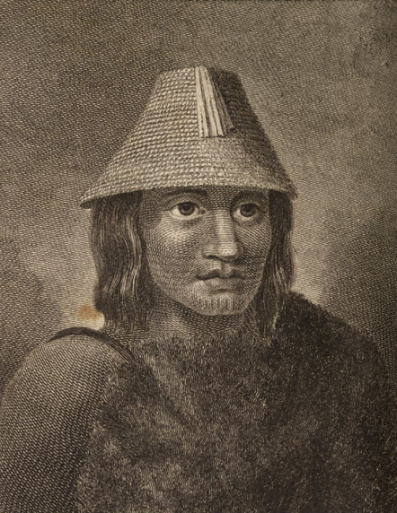 "A Native of King George's Sound" (Nootka Sound), from the book An Authentic Narrative of a Voyage Performed by Captain Cook and Captain Clerke, in His Majesty's ships Resolution and Discovery, during years 1776, 1777, 1778, 1779, and 1780, by William Ellis; published in London, 1783, by G. Robinson, J. Sewell and J. Debrett.